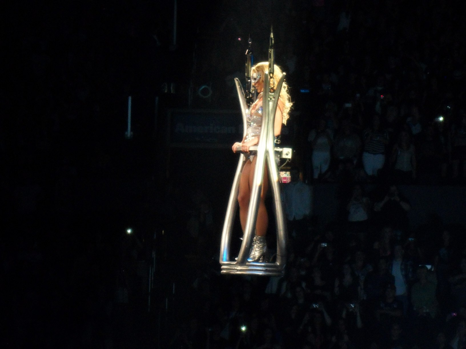 Spears